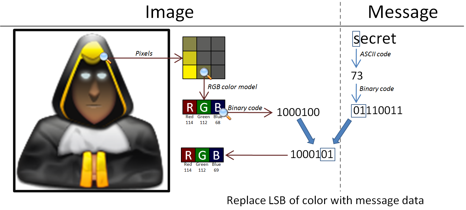 SilentEye embeding process (BMP)